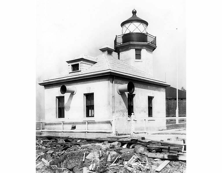 Alki Point Lighthouse, West Seattle, 1914 Photographer: Curtis, Asahel Subjects (LCSH): Alki Point (Wash.) Digital Collection: Asahel Curtis Collection Item Number: CUR1178 Persistent URL: Visit Special Collections page for information on ordering a copy. University of Washington Libraries. Digital Collections